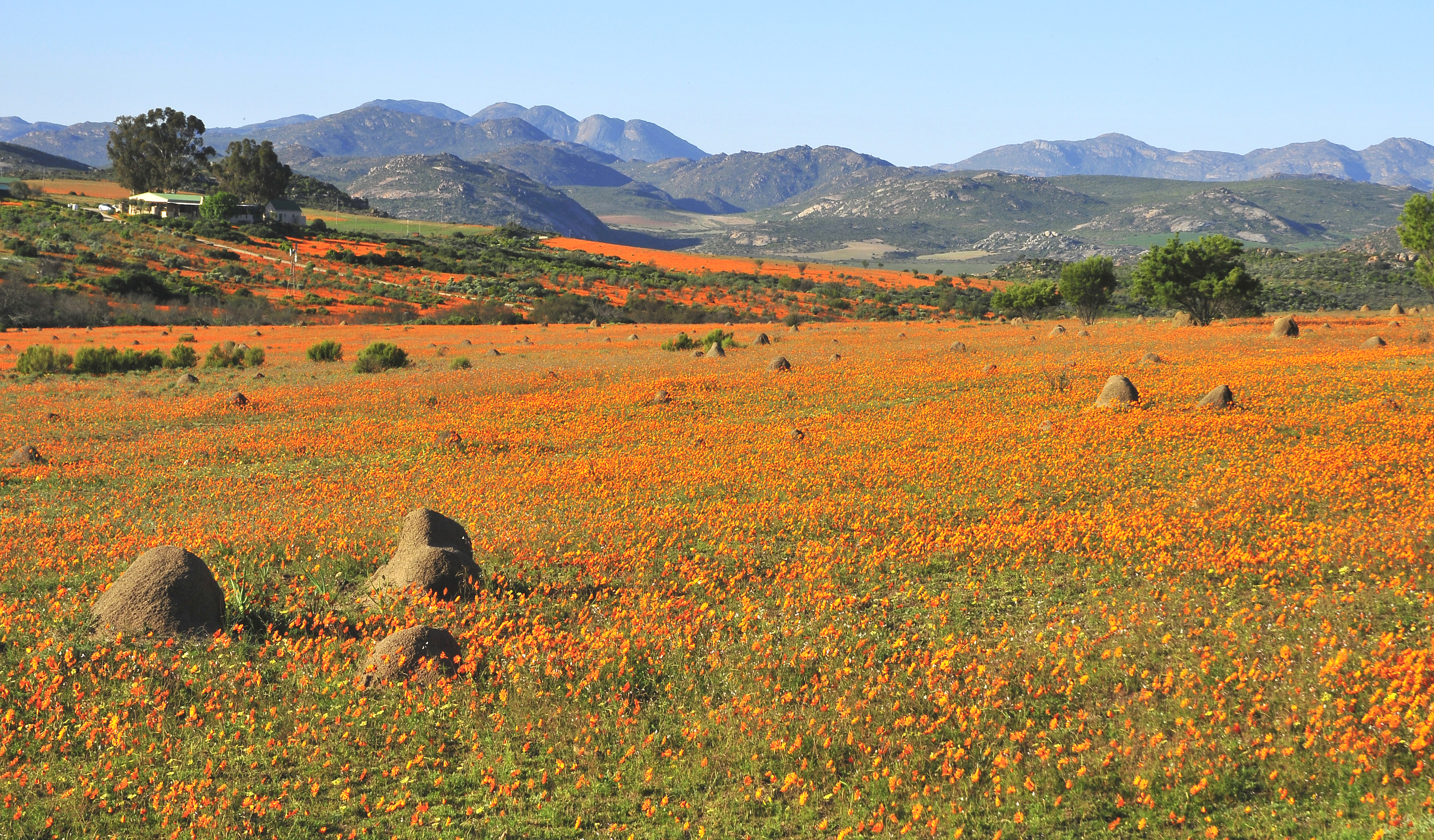 Namaqualand daisy field with termite mounds. Skilpad, Namaqua National Park, Northern Cape, South Africa